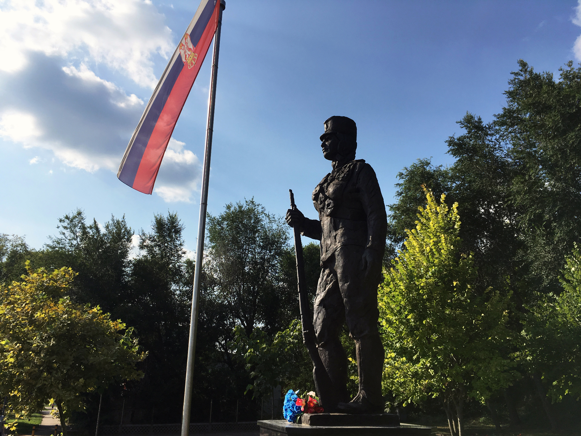 Statue of WW1 heroine Milunka Savić in Inđija3